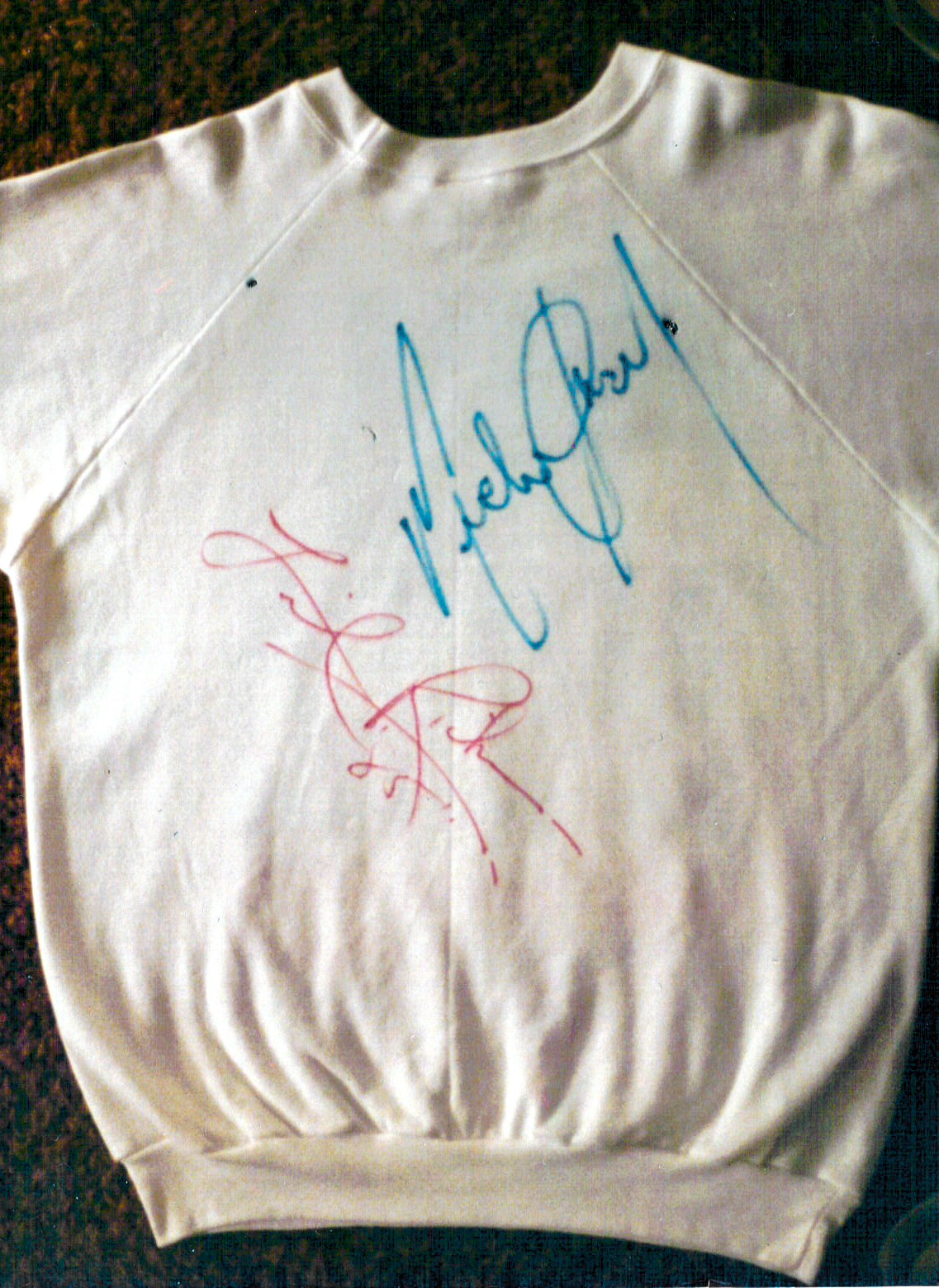 Back of "We Are The World" Sweatshirt autographed by Michael Jackson and Lionel Richie. Photo by Glenn Francis of